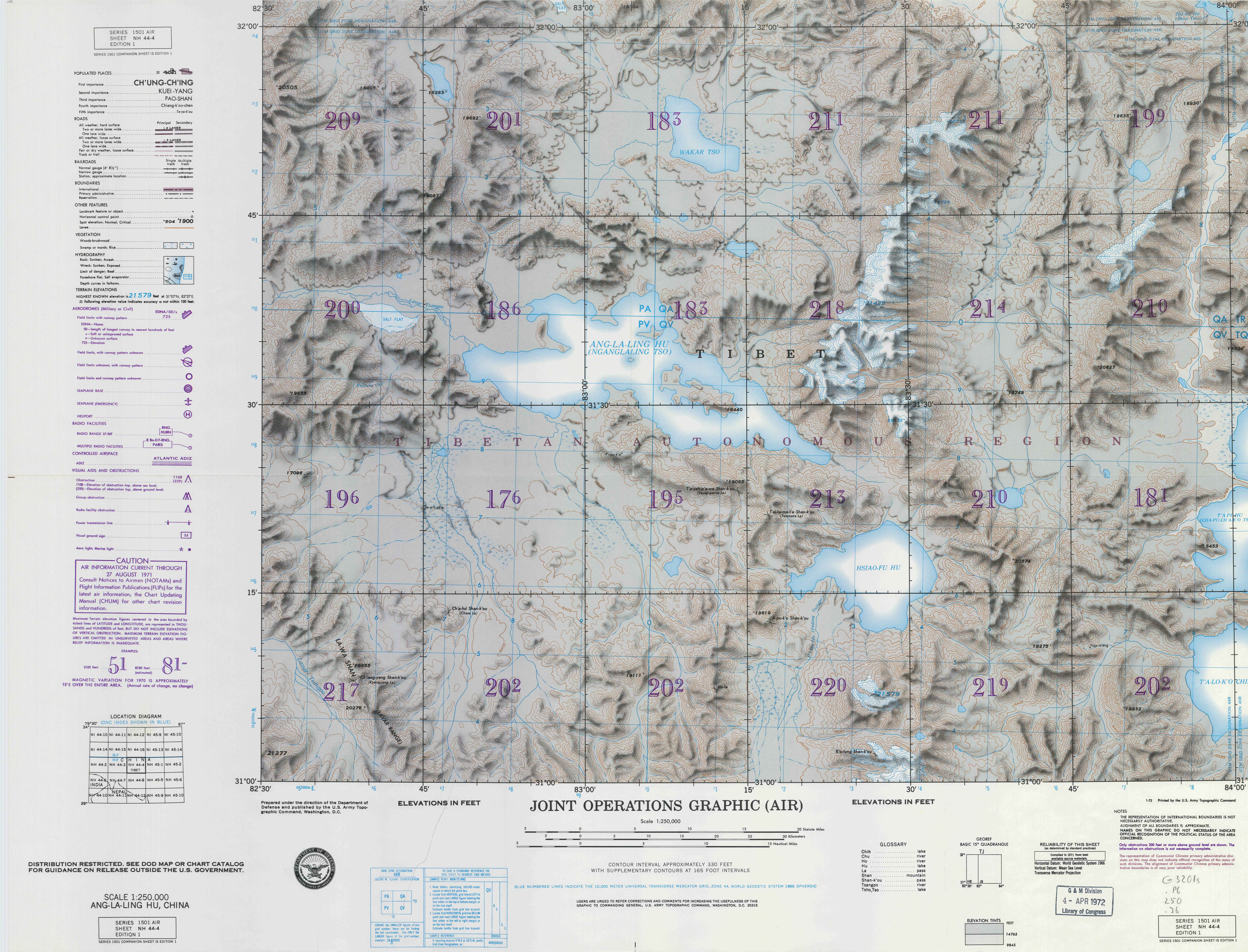 NH-44-4 ANG-LA-LING HU, China